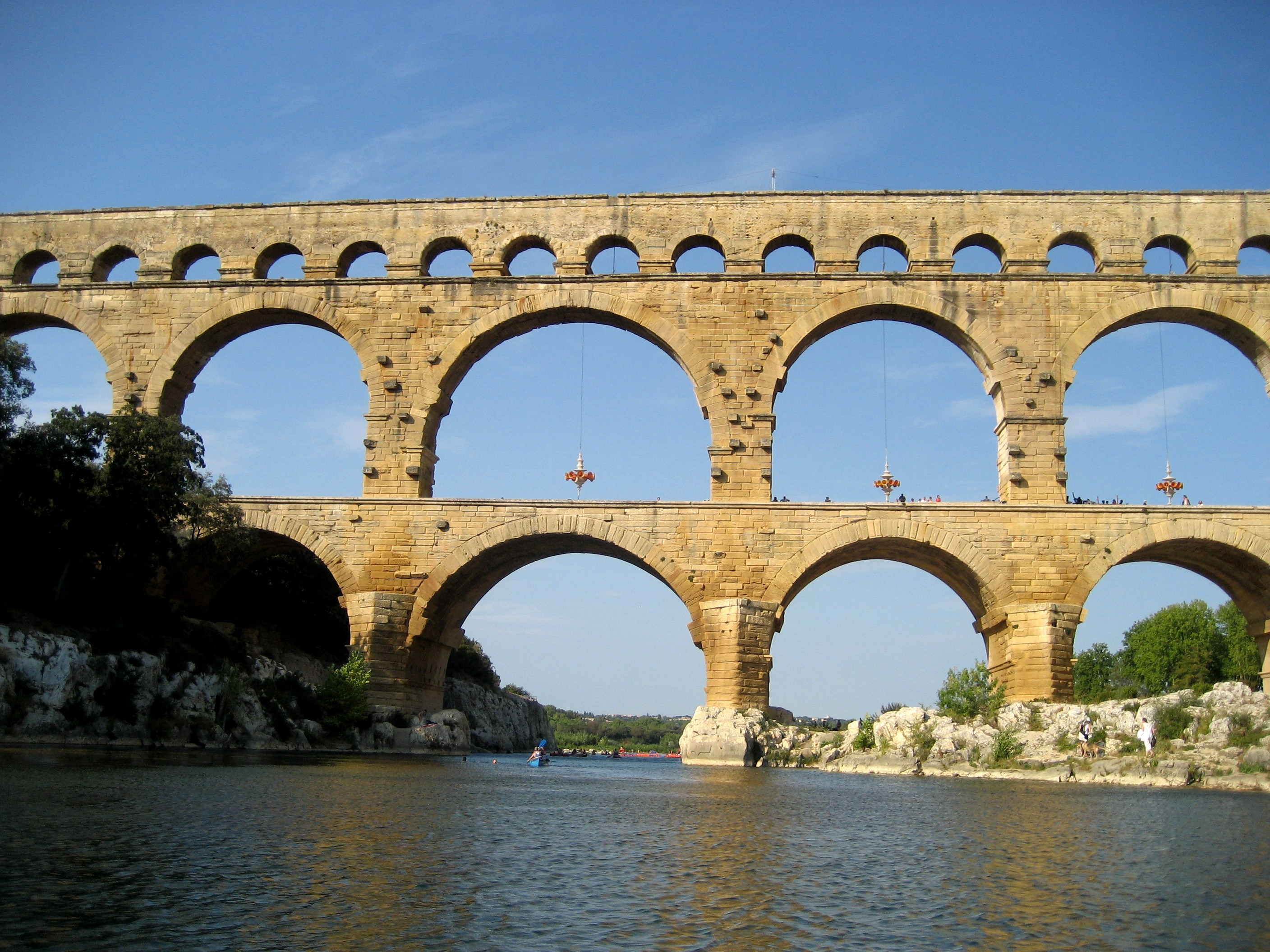 Pont du Gard, France, seen from river Gard